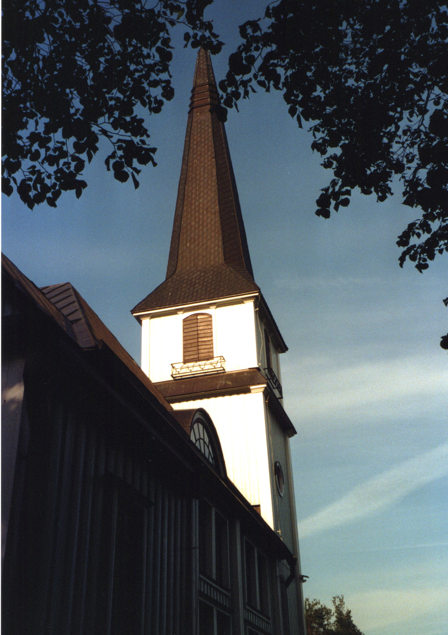 View of Keskuskirkko in Riihimäki. Taken by me on a recent trip to Helsinki and Riihimäki.